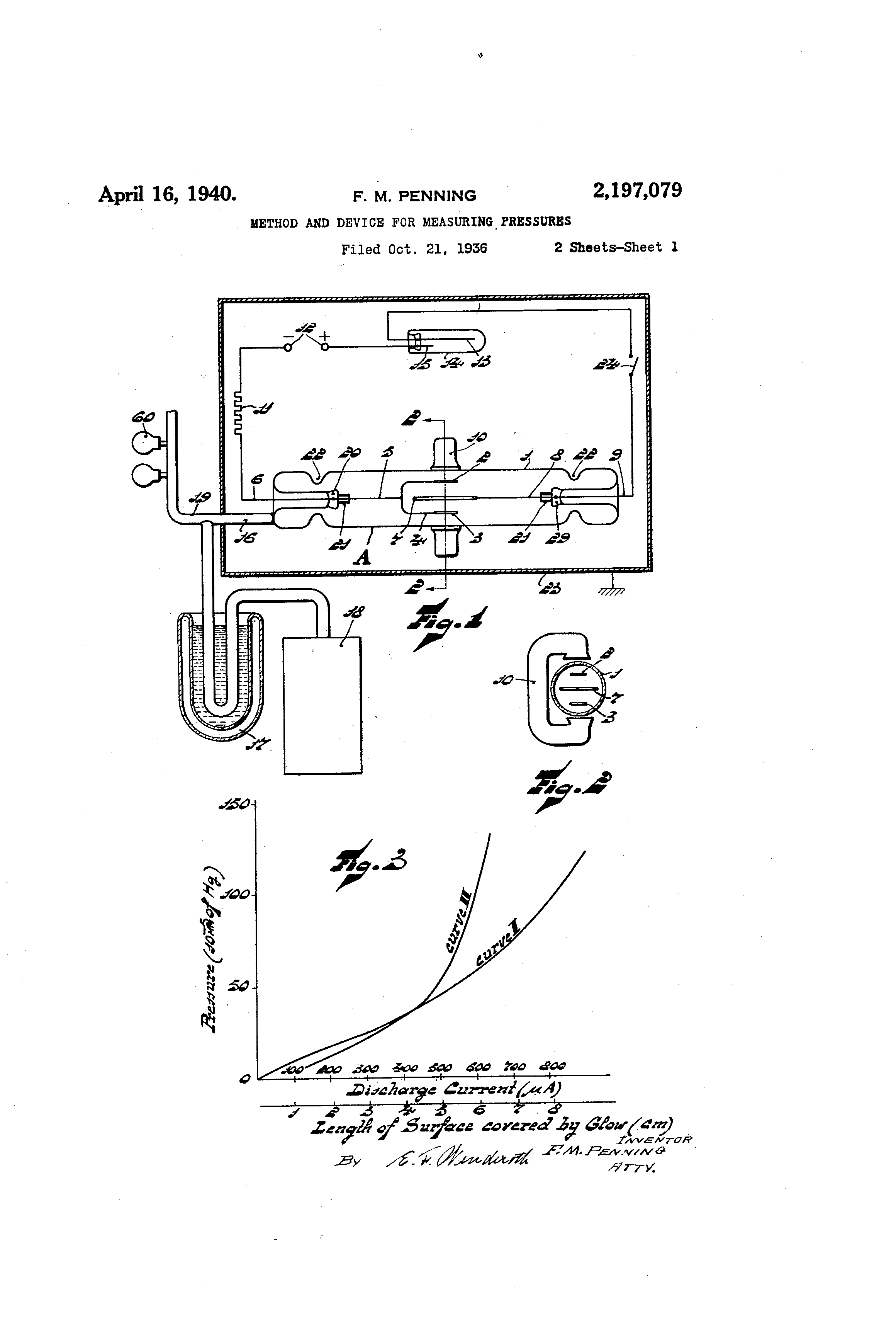 Patent schematic of the method and device used to measure low pressure gases by cold cathode; it was developed by Frans Michel Penning.